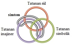 Simpul Borromean Jacques Lacan